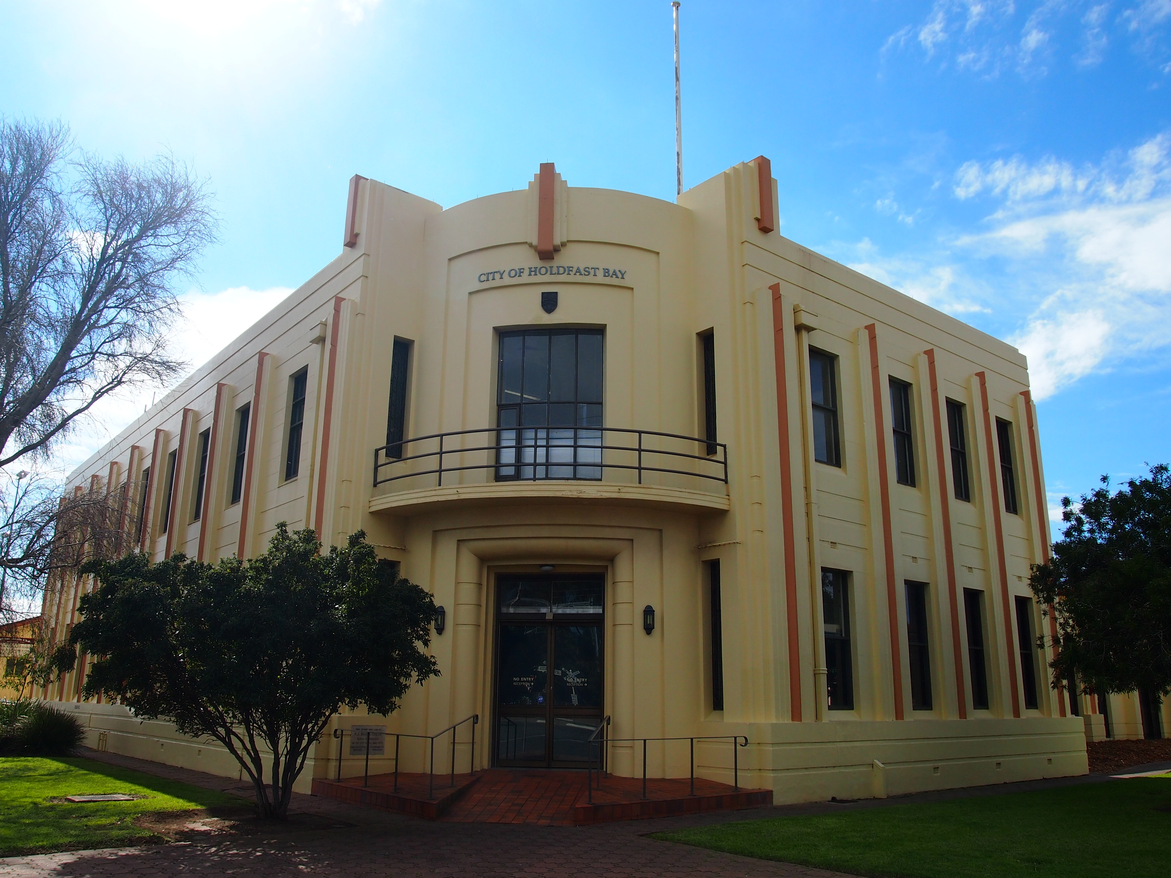 City of Holdfast Bay municipal offices in Brighton, South Australia, formerly the Brighton Town Hall, opened in 1937 Original filename = P8153974.JPG